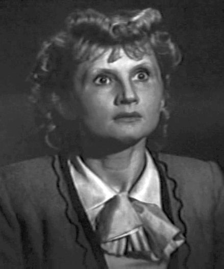 Lidiya Sukharevskaya, 1943 movie still